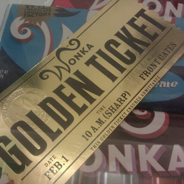 Golden ticket and Wonka chocolate bars from the 2005 film Charlie and the Chocolate Factory displayed at ExpoSYFY (Spain?)